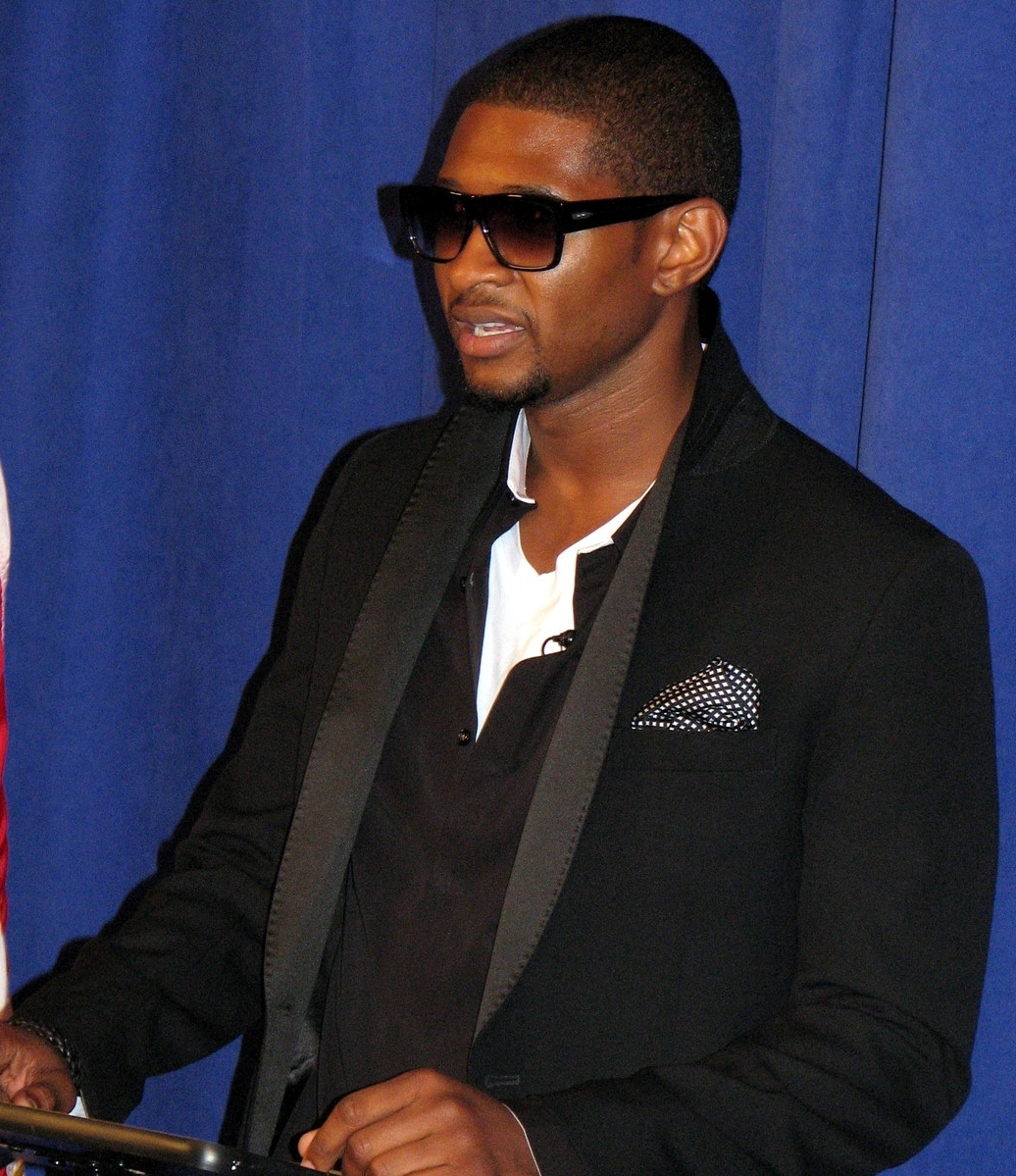 Usher at ServiceNation Summit, New York City